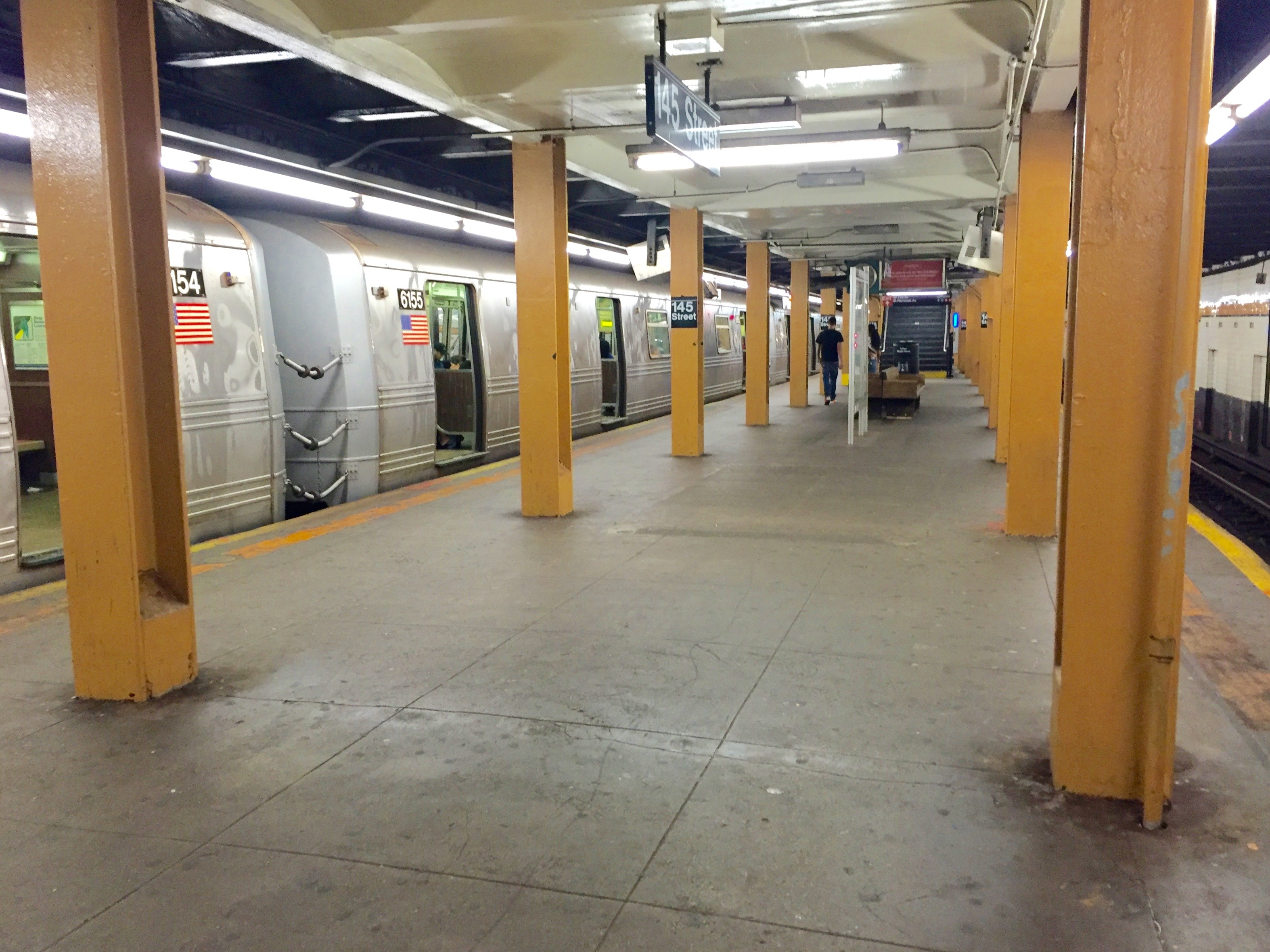 Brooklyn bound A/C platform at 145th Street.